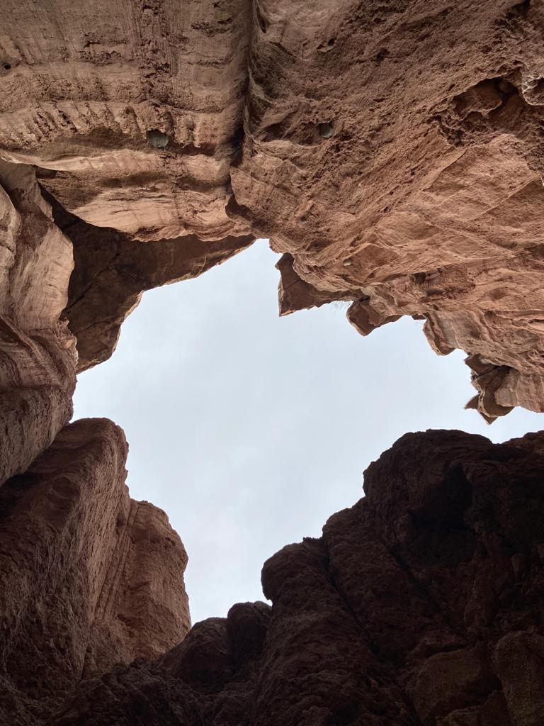 Lion's Cave or Vulture.